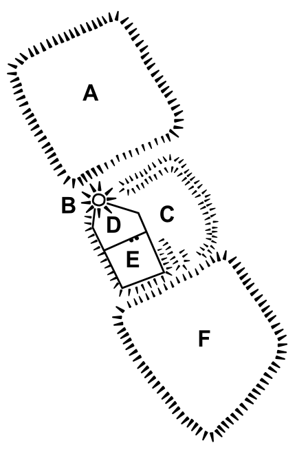 Plan of Longtown Castle, early 13th century